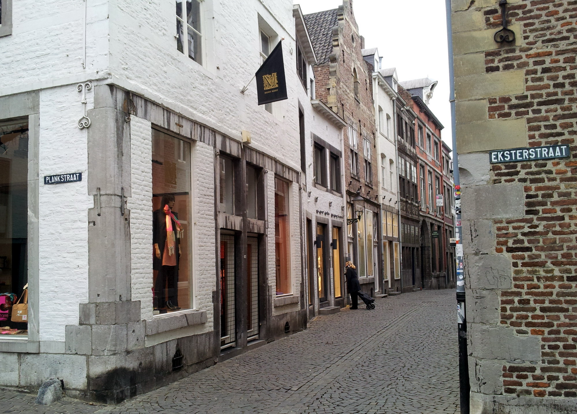 Maastricht, the Netherlands. View towards the North of Stokstraat from the corner of Eksterstraat/Plankstraat in the oldest part of town.